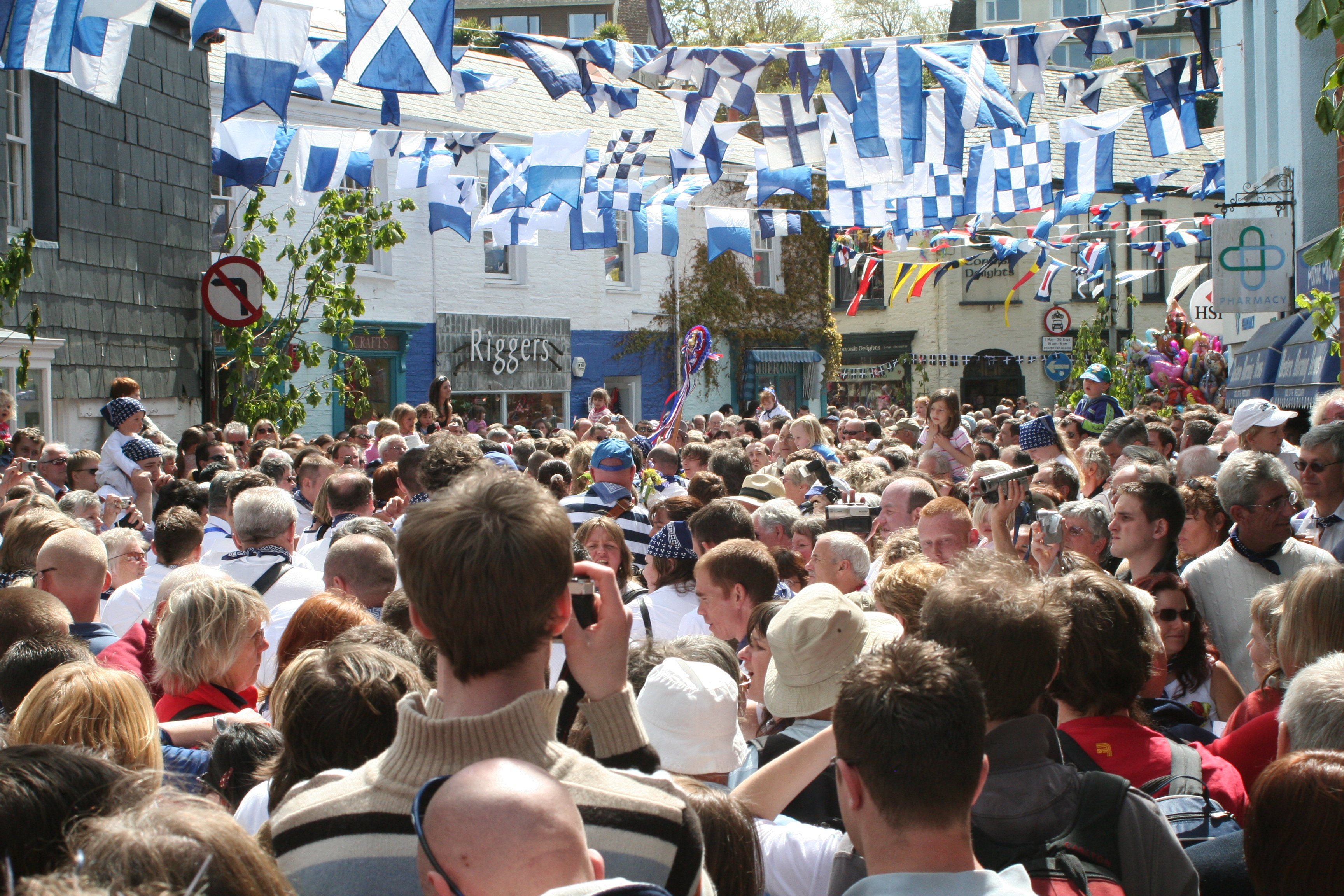 May Day in Padstow The annual 'obby 'oss celebrations